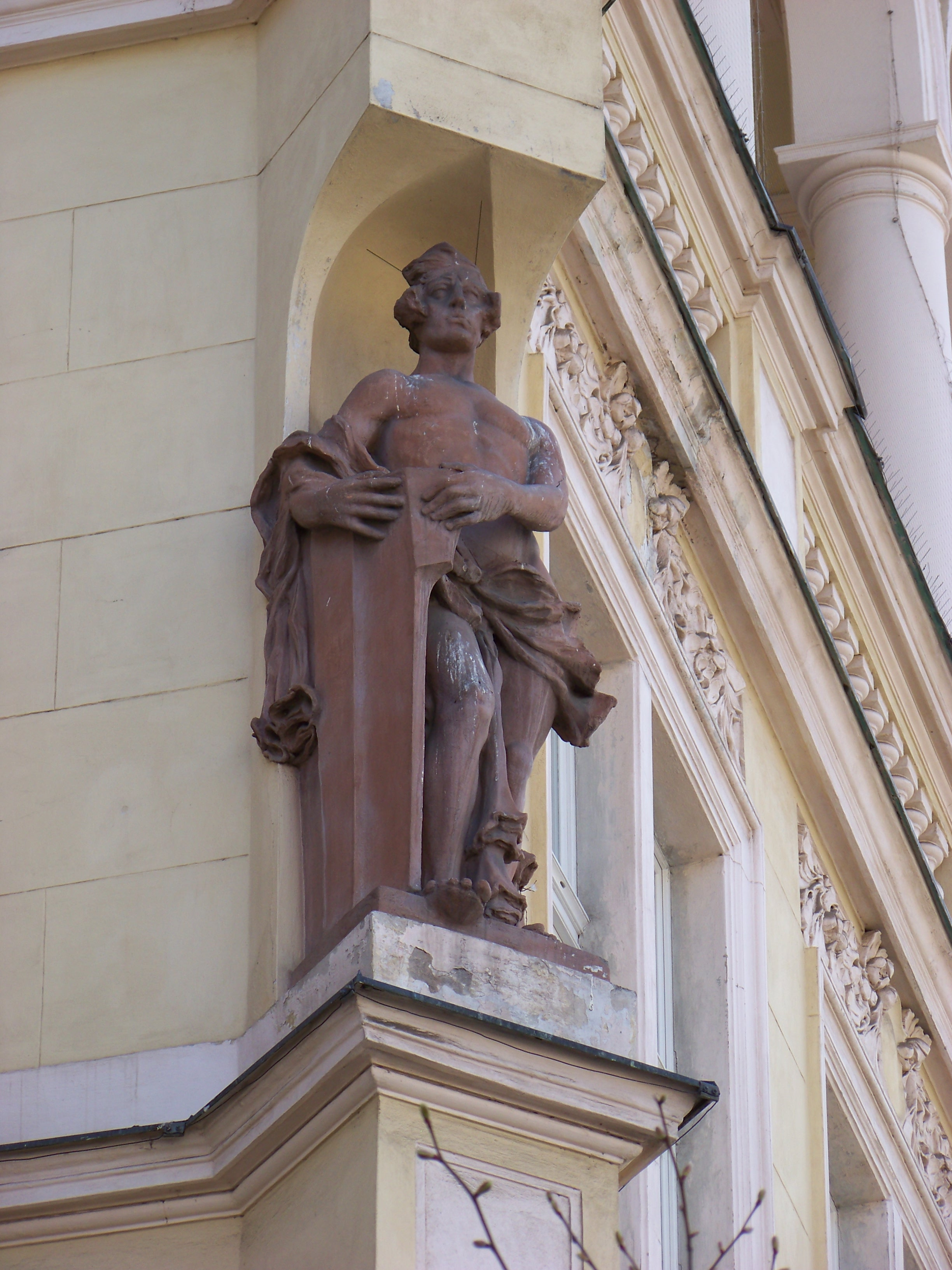 Prague-Nusle, the Czech Republic. Táborská 500/30, náměstí Generála Kutlvašra 500/1, a town hall. - Google Maps - Google Earth